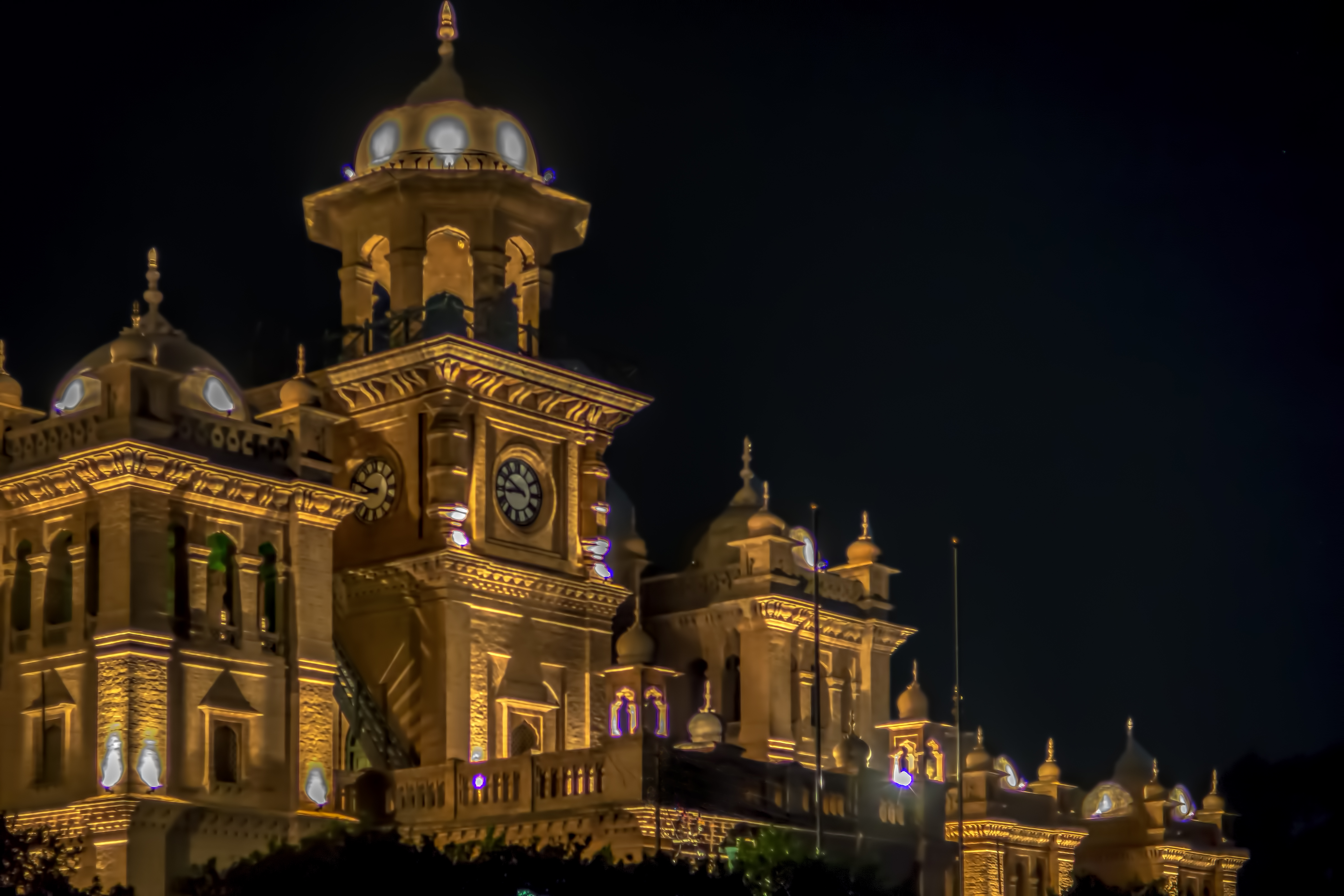 Islamia College Peshawar This is a photo of a monument in Pakistan identified as the KPK-83